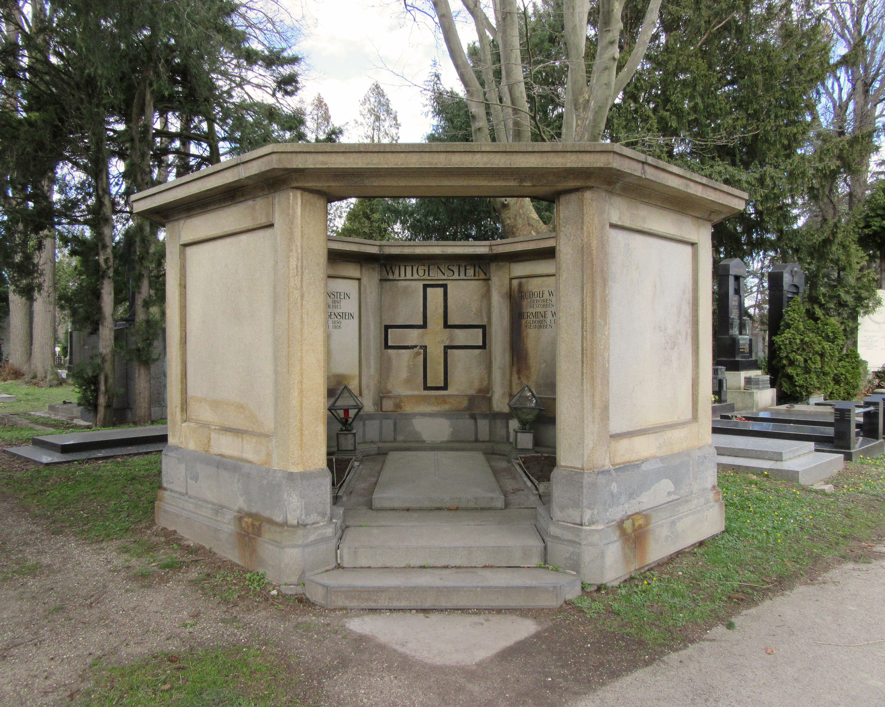 Grave of Austrian steel tycoon Karl Wittgenstein (1847–1913), his wife Leopoldine and his children Rudolf und Hermine at the Vienna Central Cemetery (Zentralfriedhof Wien)